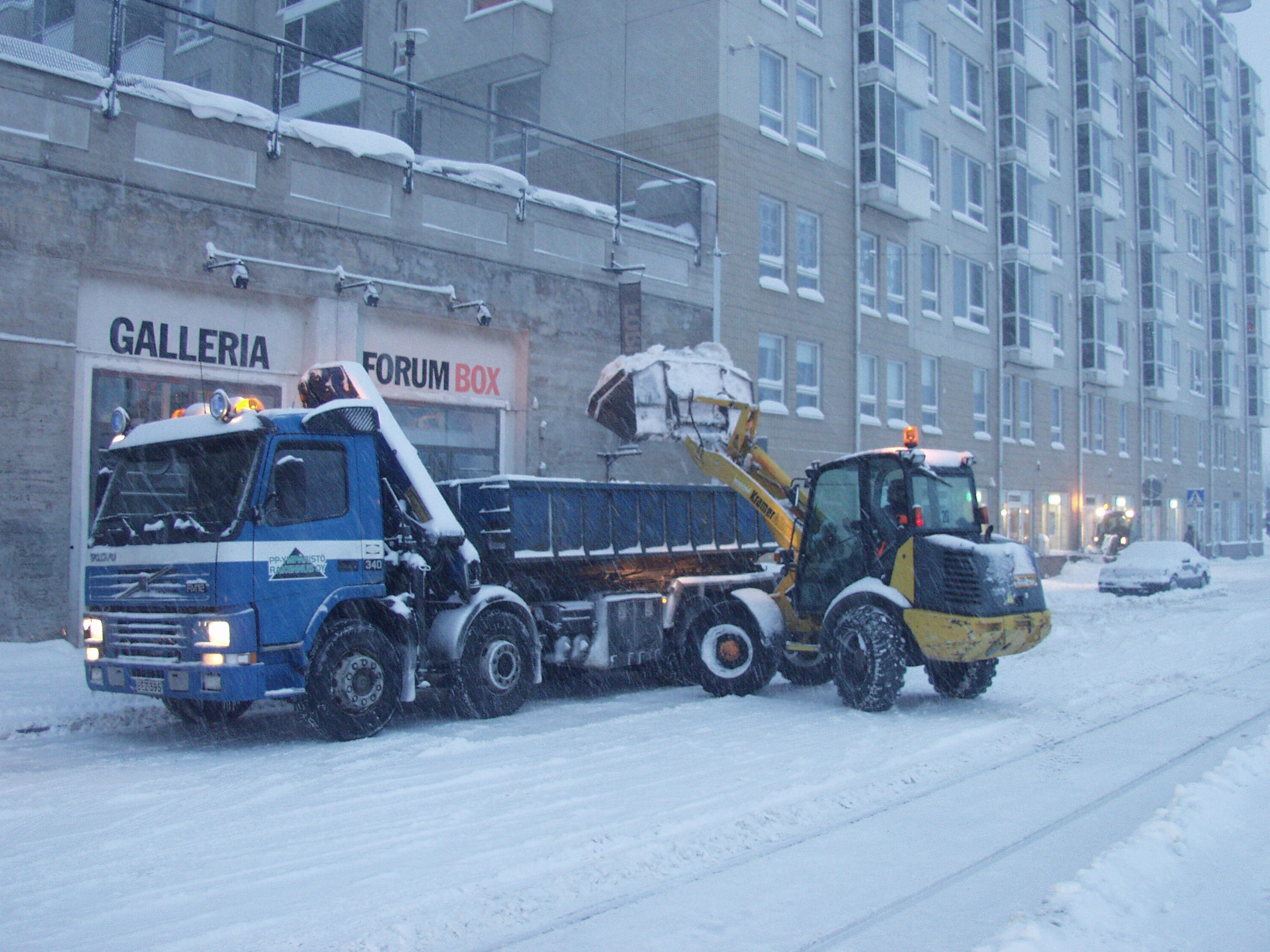 Snow removal in Helsinki in the Hietalahti neighborhood in December 2010